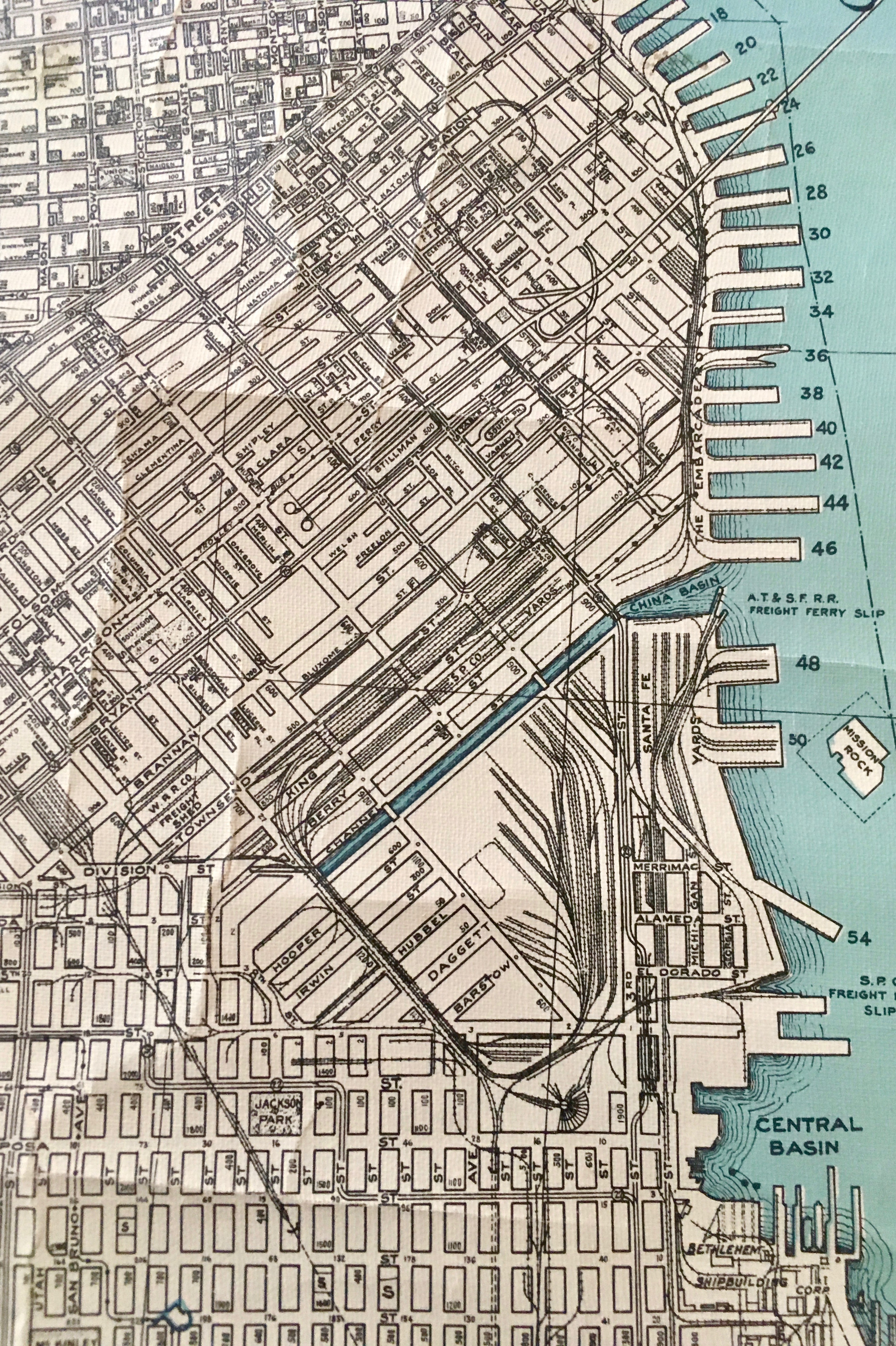 Rail lines south of Market Street in San Francisco in 1937